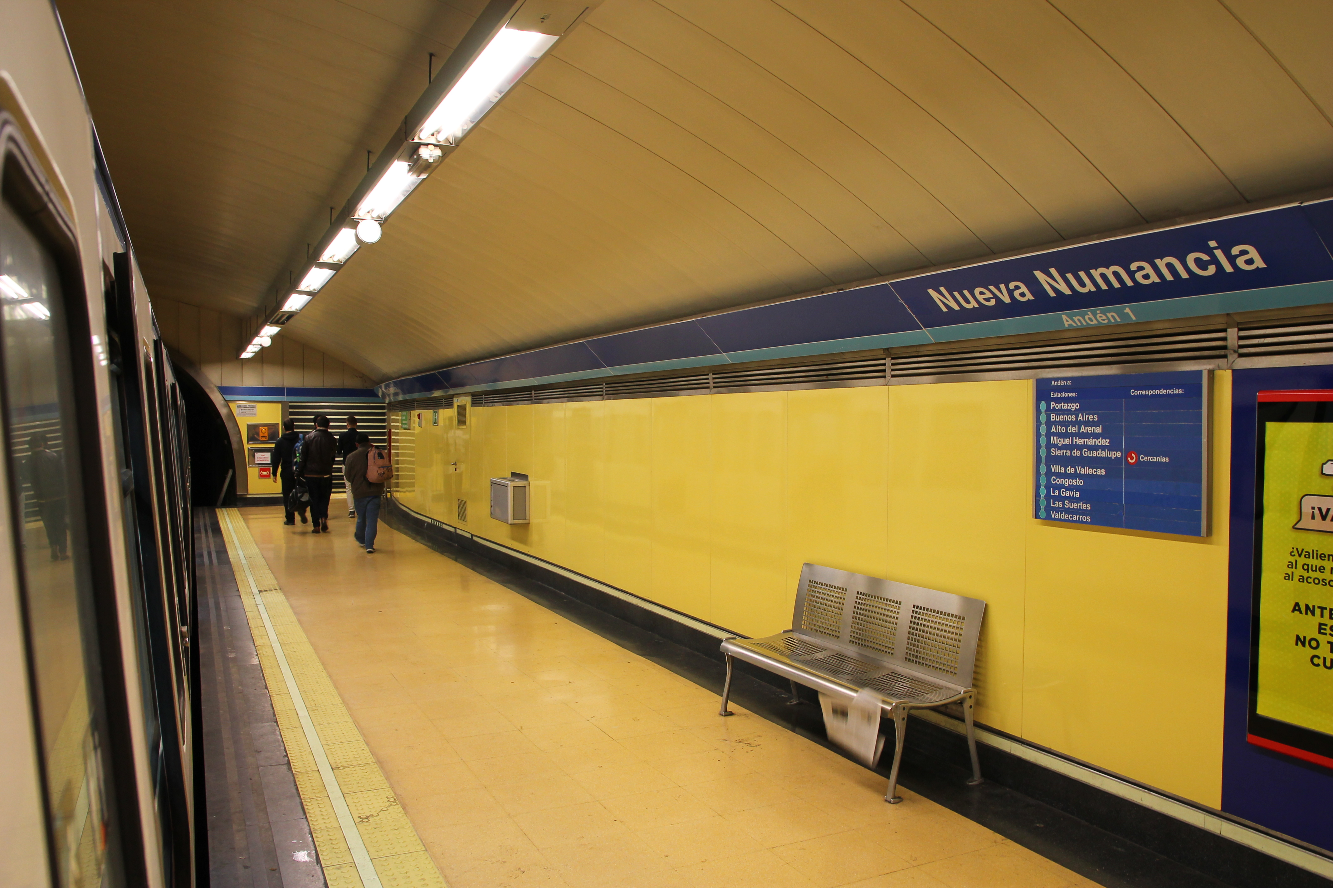 Nueva Numancia station. Madrid Metro.